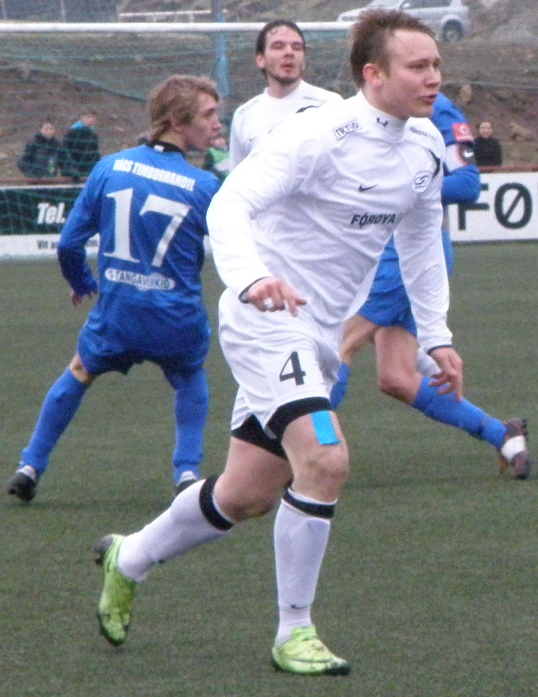 Gert Aage Hansen is a Faroese football player, a defender. He plays for EB/Streymur in Vodafonedeildin, which is the Faroe Islands Premier League. This photo was taken on 25 April 2010 in Eiðinum Stadium in Vágur in the Faroese Cup match against FC Suðuroy. EB/Streymur won the match 4-1. EB/Streymur won the Faroes Cup (Løgmanssteypið) 4 months later after winning the final match against ÍF Fuglafjørður 1-0. The player in blue to the left behind Hansen is Henning G. Joensen from FC Suðuroy. The other player in white is Marni Djurhuus. Føroyskt: Gert Aage Hansen er føroyskur fótbóltsleikari, verjuleikari. Hann spælir við EB/Streymi í Vodafonedeildini. Henda myndin var tikin í fjórðingsfinaluni móti FC Suðuroy vesturi á Eiðinum í Vági, flaggdagin 25. apríl 2010. EB/Streymur vann dystin 4-1. Seinni vunnu teir Løgmanssteypið í finaludystinum móti ÍF, sum varð spældur í Klaksvík sama vikuskifti sum Summarfestivalurin var. Úrslitið av dystinum var 1-0 til EB/Streym.